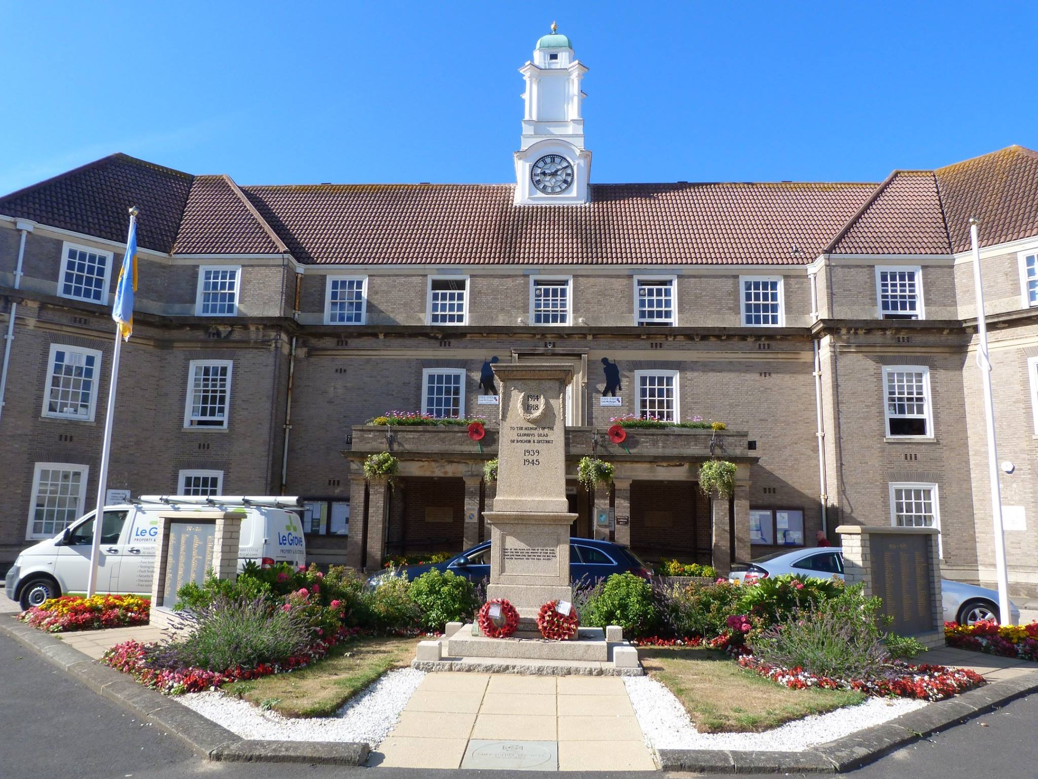 Bognor Regis Town Hall; originally built for and occupied by the former Bognor Regis Urban District Council until 29/03/1974. Since 1/04/1974 The building had been occupied by Arun District Council and Bognor Regis Town Council.